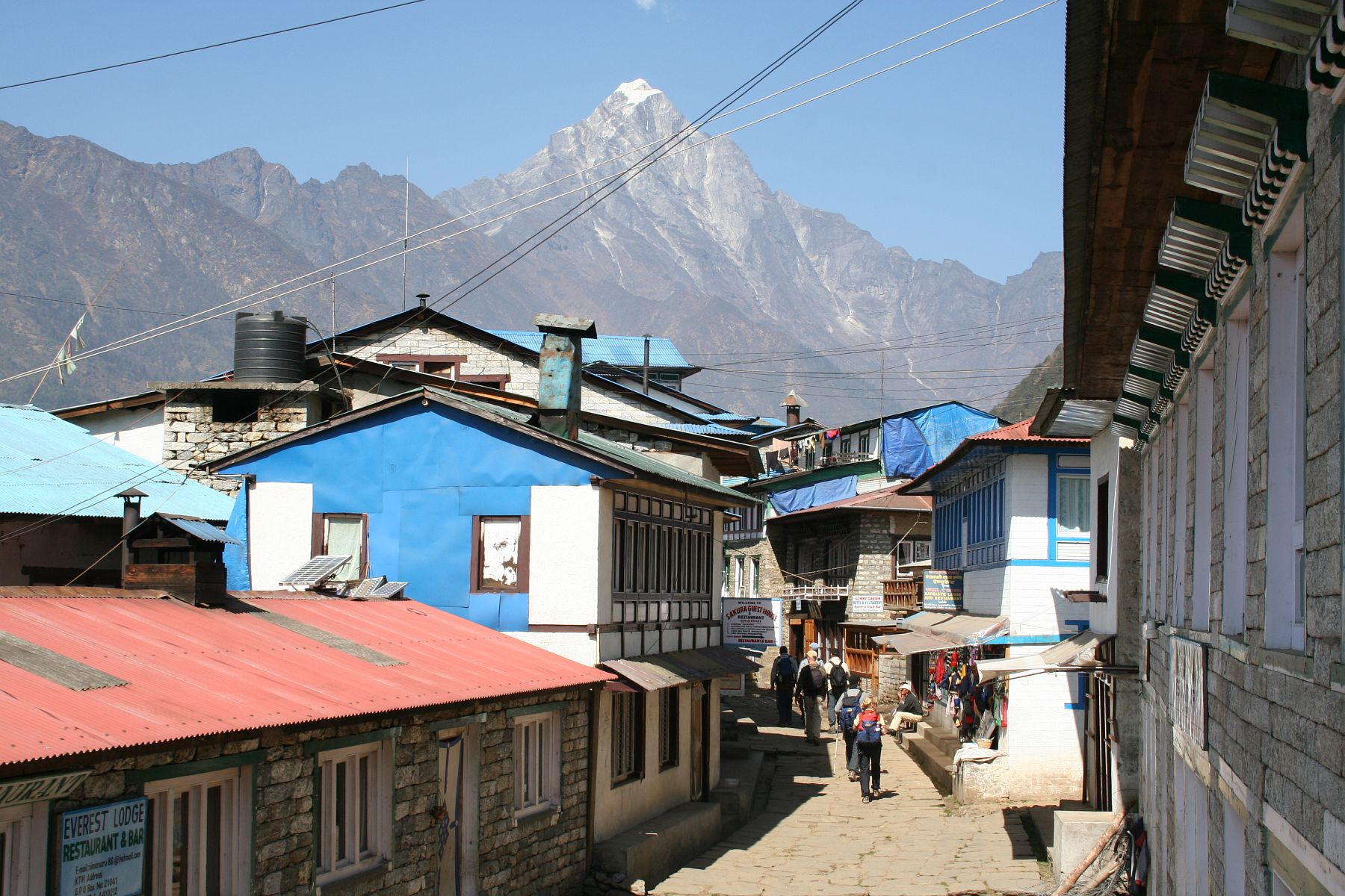 Lukla, "main street"